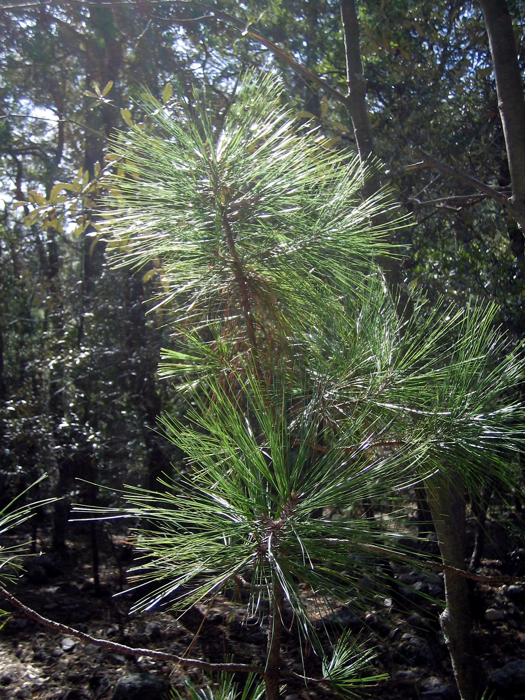 Pinus arizonica young plant, Price Canyon, south of Rodeo, SW New Mexico